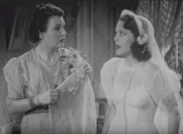 Betty Ross Clarke (left) and Anne Nagel in A Bride for Henry (1937) - cropped screenshot